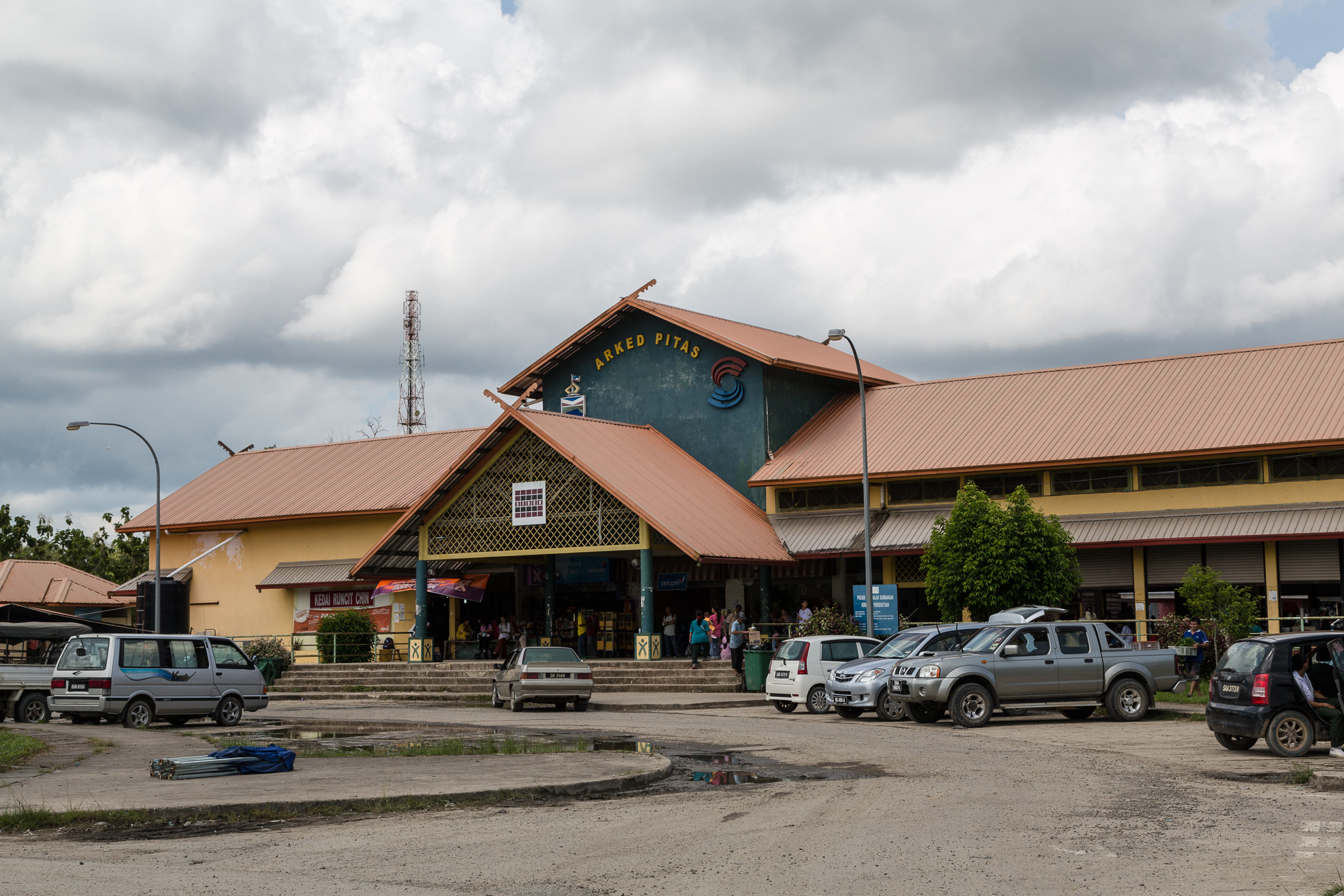 Pitas, Sabah: Market hall near tamu ground